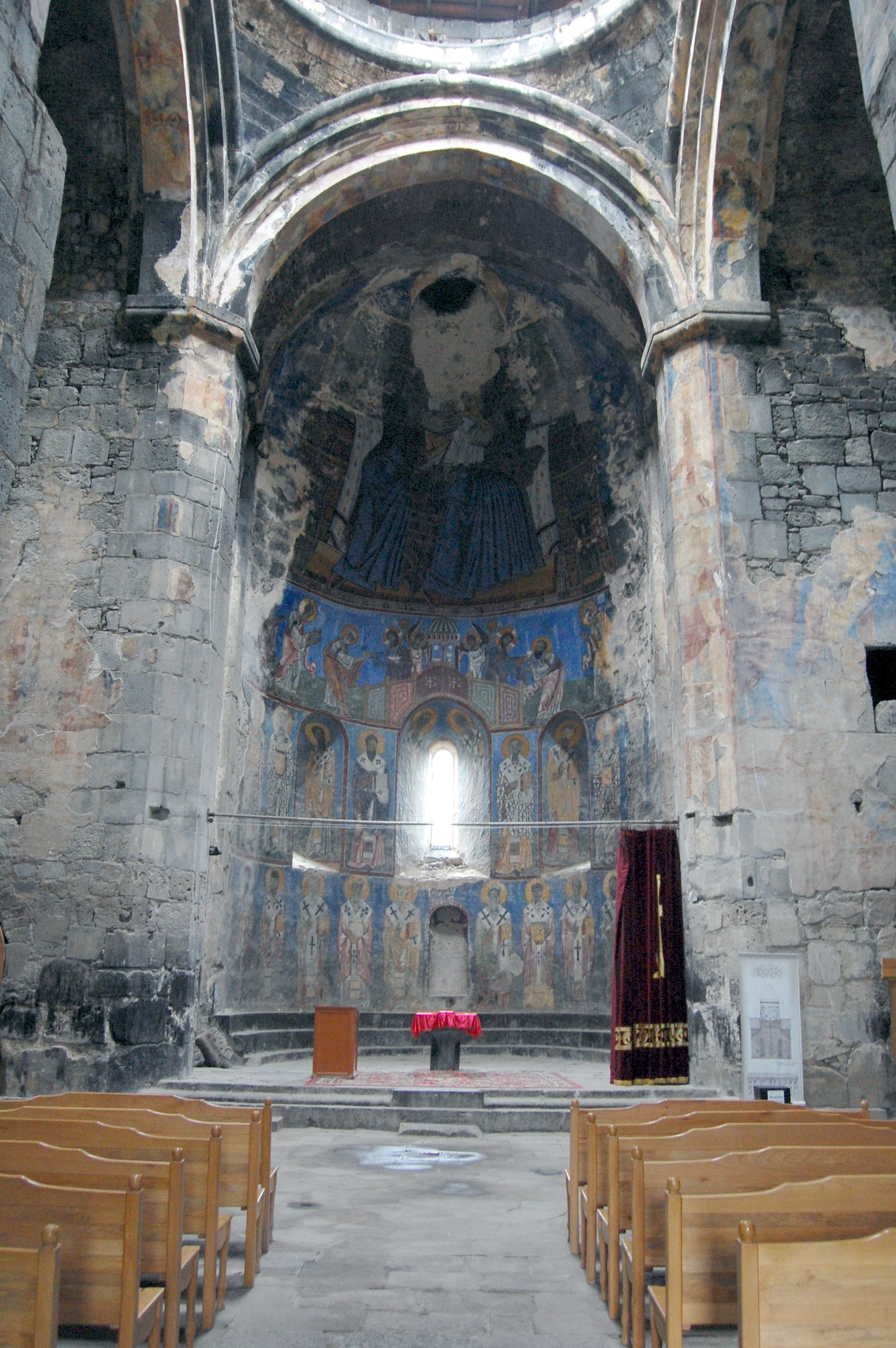 Altar and murals on the eastern wall. Surb Astvatsatsin (Holy Mother of God church) in Pghndzahank, Ahktala, Armenia